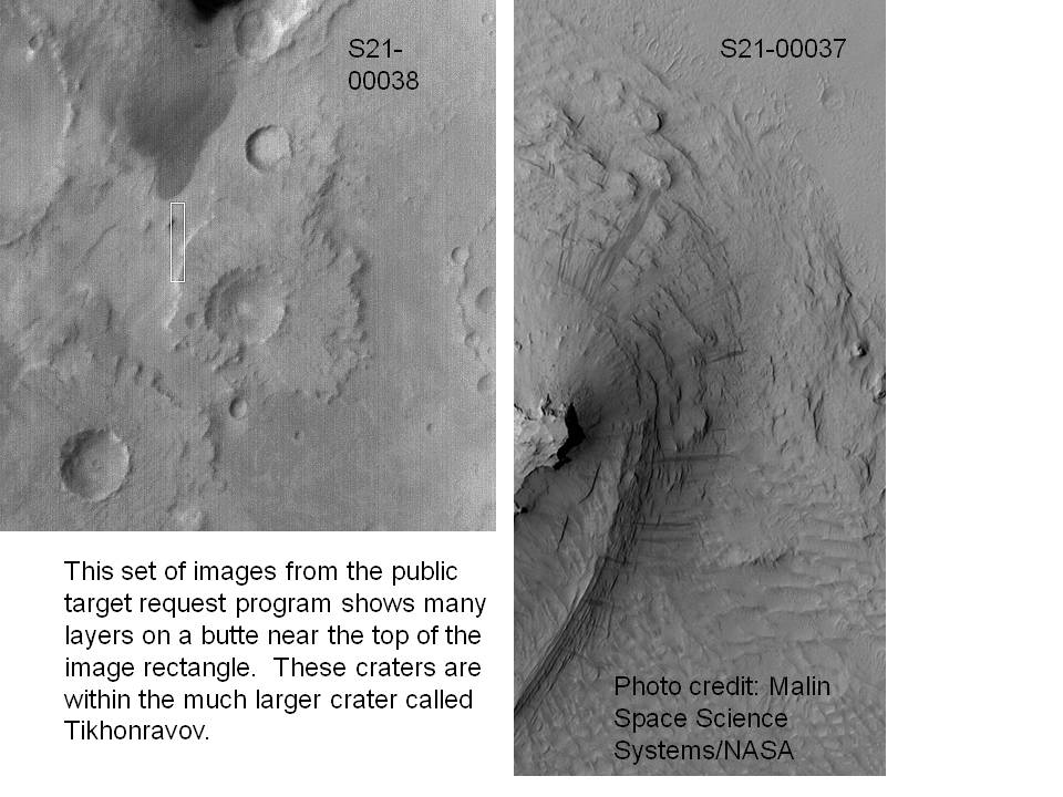 Layers in the middle of a crater in Arabia. This image was taken with the Mars Orbital Camera MOC) on the Mars Global Surveyor MGS). The id numbers are S21-00038 and S21-00037, and its location is 325.63 degrees west longitude and 13.74 degrees north latitude. The photo credit is Malin Space Science Systems/NASA.